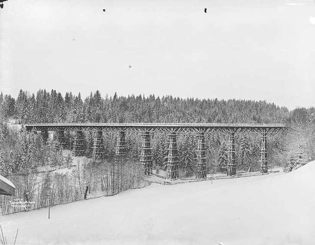 Picture of the old and demolished wooden railway bridge in Hvalstaddalen in Asker, Norway. Demolished in 1914-15. At it's time the longest wooden railway bridge in Scandinavia